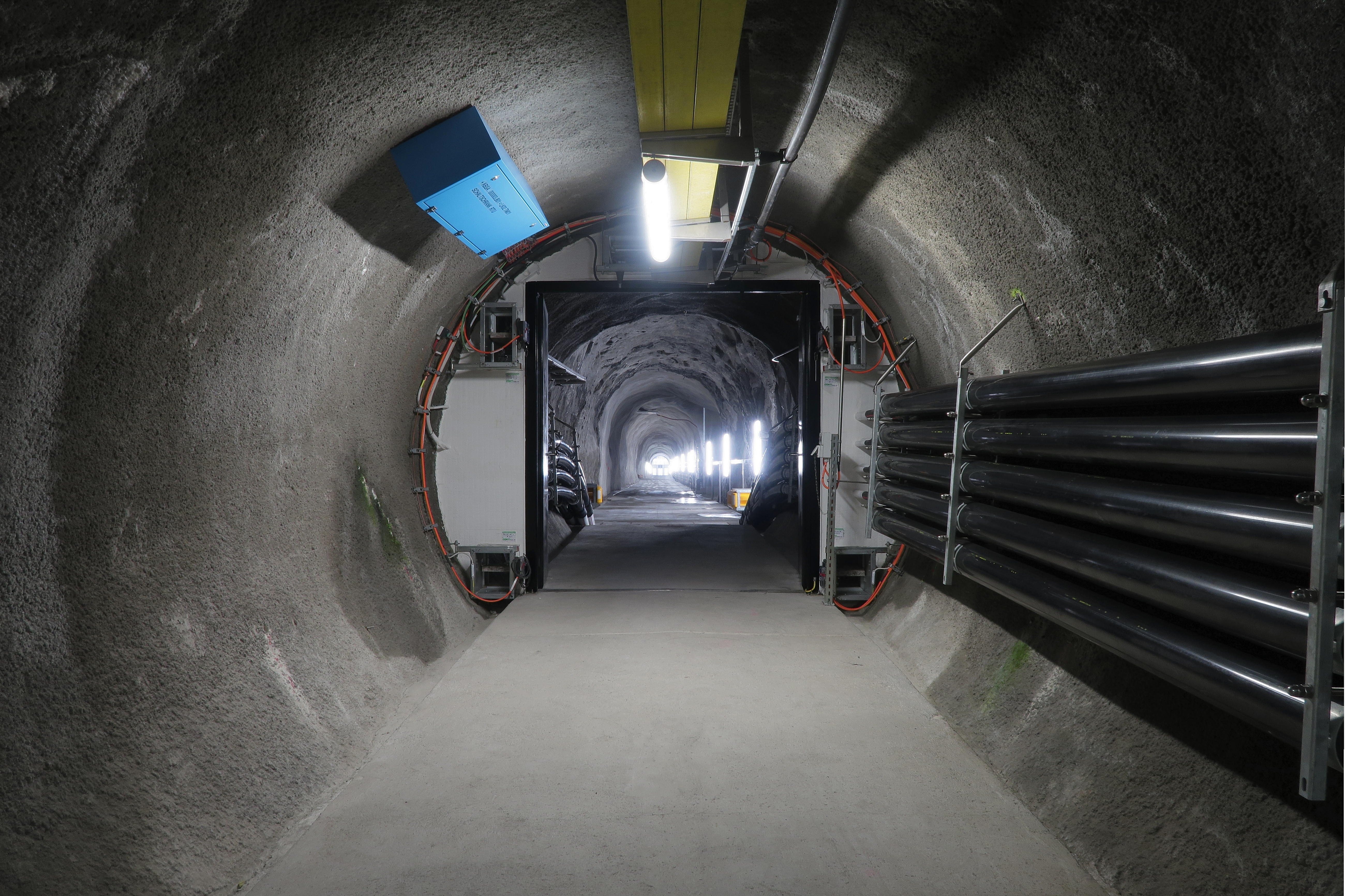 The view from inside the cable tunnel through the door to the access tunnel. The greenery on the walls are small plants that grow here - incredible. Traction current supply for the Gotthard Base Tunnel. Switzerland, Nov 15, 2016. (13/15)